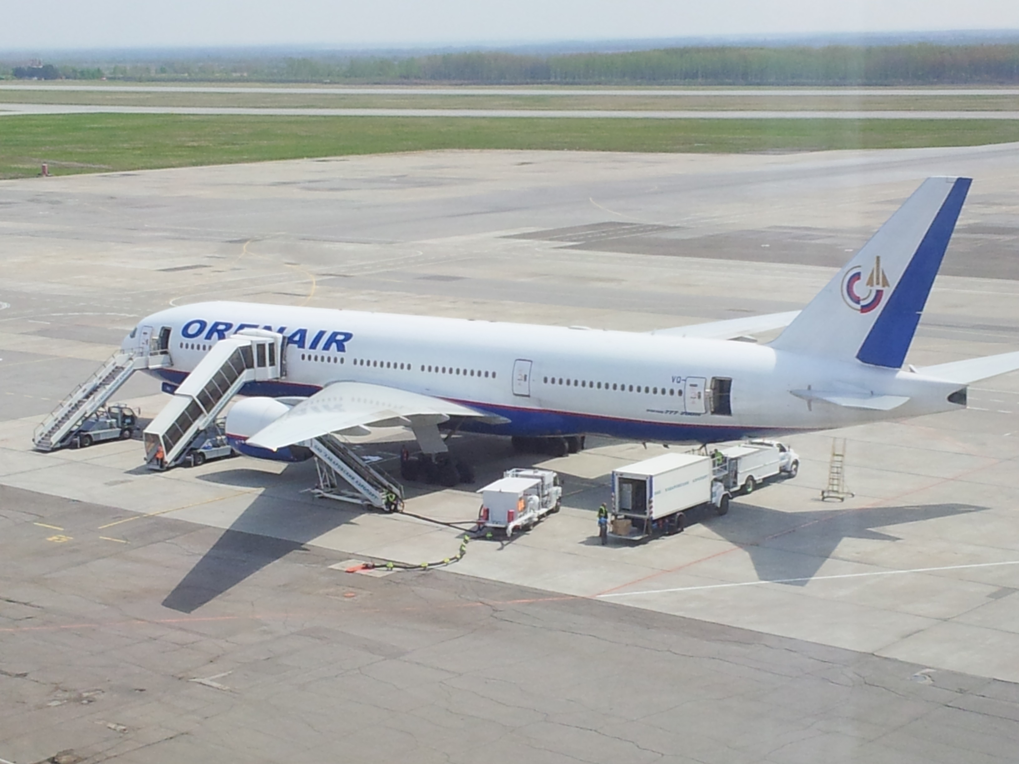 ORENAIR